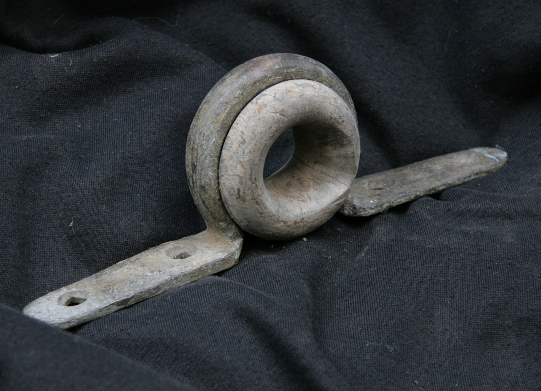 Bulls eye, with iron fittings